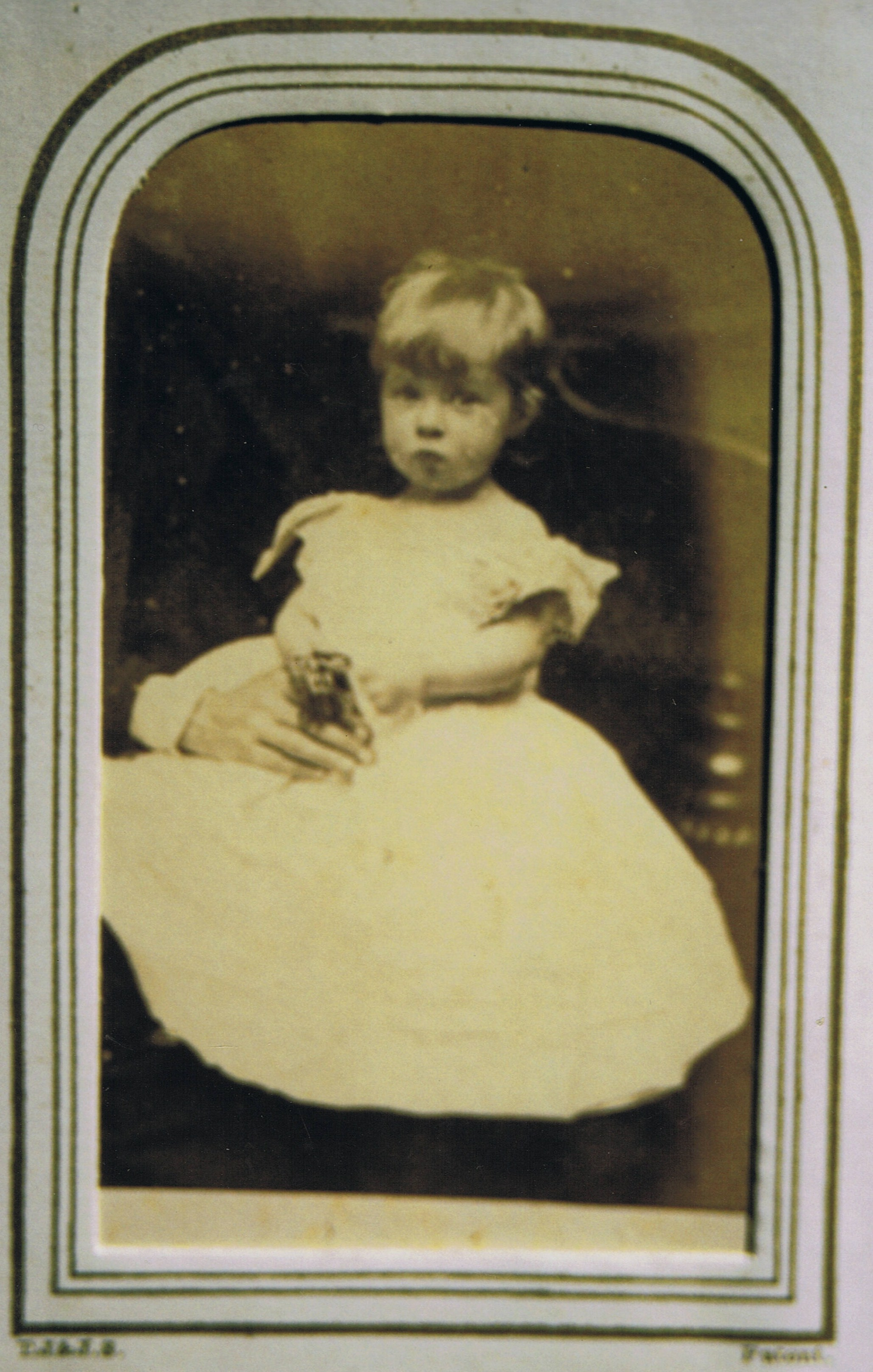 Scan (by me) of a photo (by meRodolph (talk) 21:51, 9 August 2013 (UTC)) of a photo of Catherina Barbara Leighton, Mrs. Alfred Sotheby (1870- 2 October 1952). She married (28 September 1909) Alfred Sotheby (d.9 October 1949), the youngest son of Admiral Sir Edward Southwell Sotheby, KCB (1813-1902). So, an original photo taken circa 1874, from an album made by Emily Fane De Salis of Dawley and Teffont.